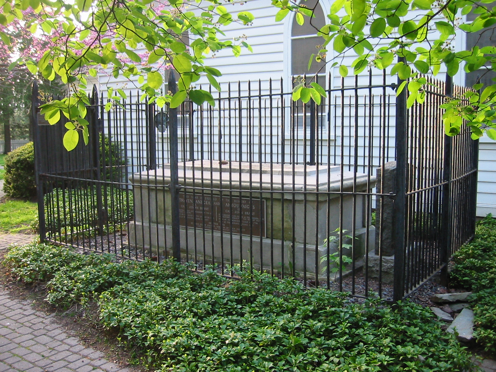 Joseph Brant's tomb at the Mohawk Chapel, Brantford, Ontario, Canada. Photo taken by NormanEinstein, May 26, 2005.